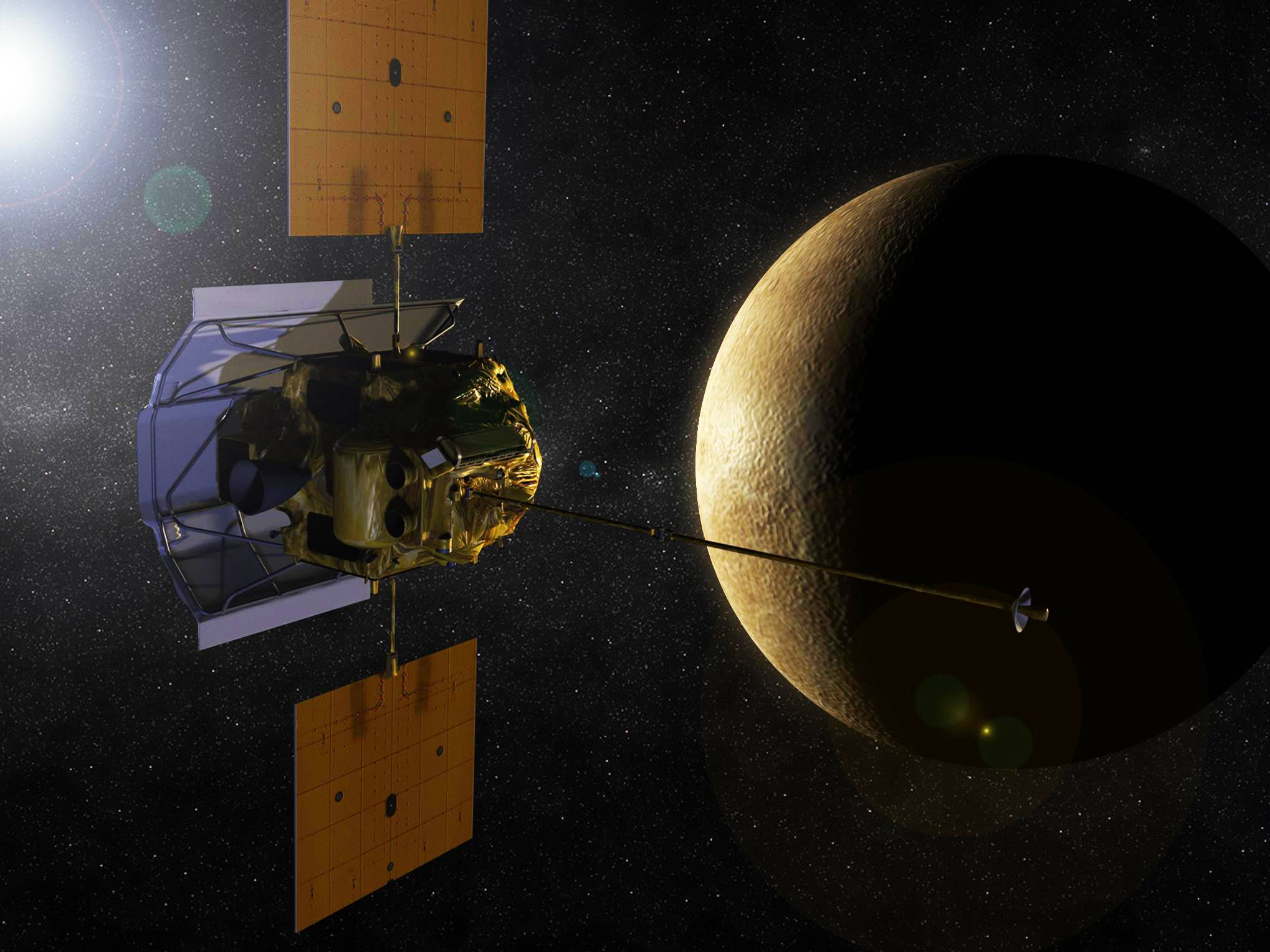 Artist's rendering of the MESSENGER spacecraft orbiting Mercury